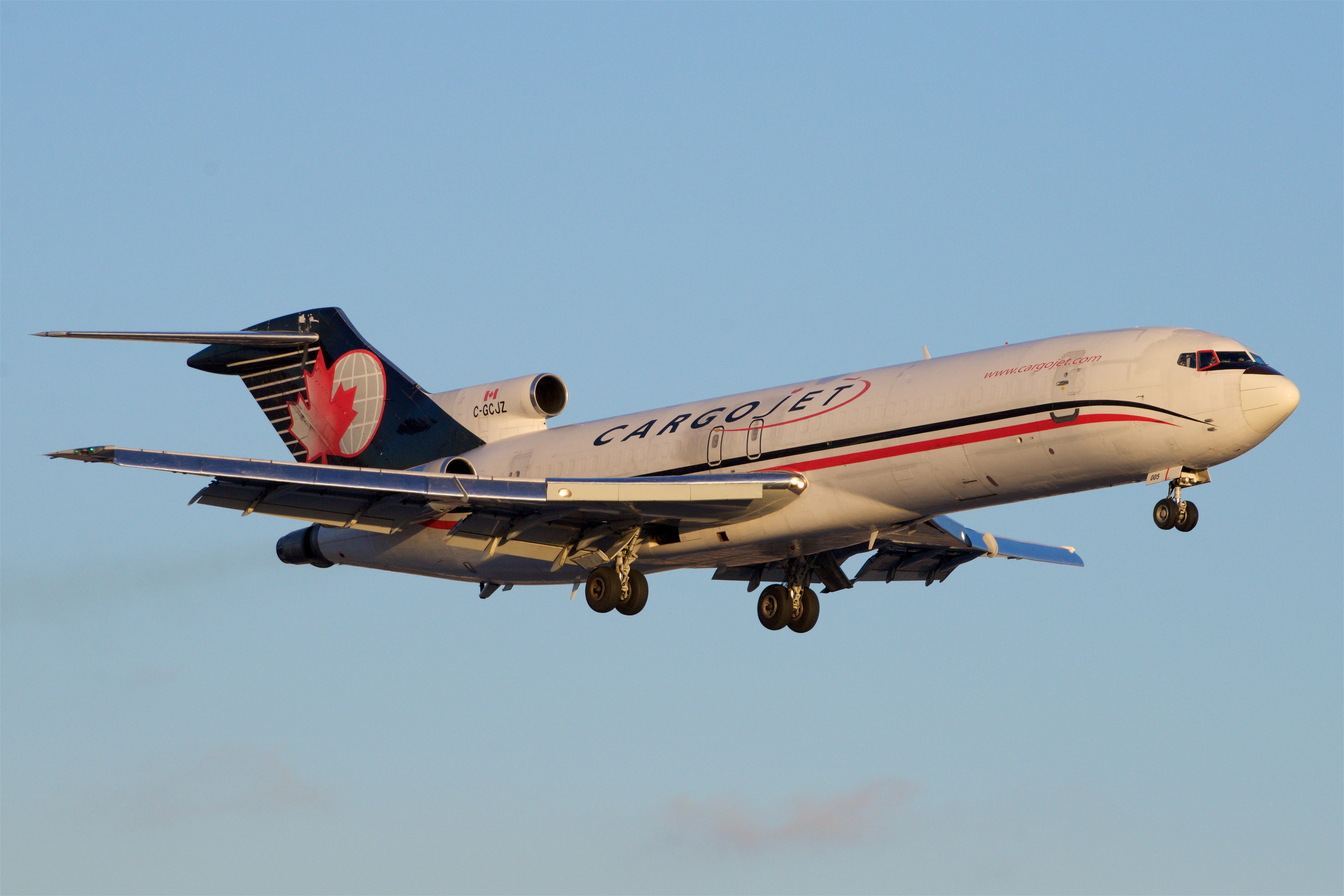 Smoking up the air on final to YYZ.